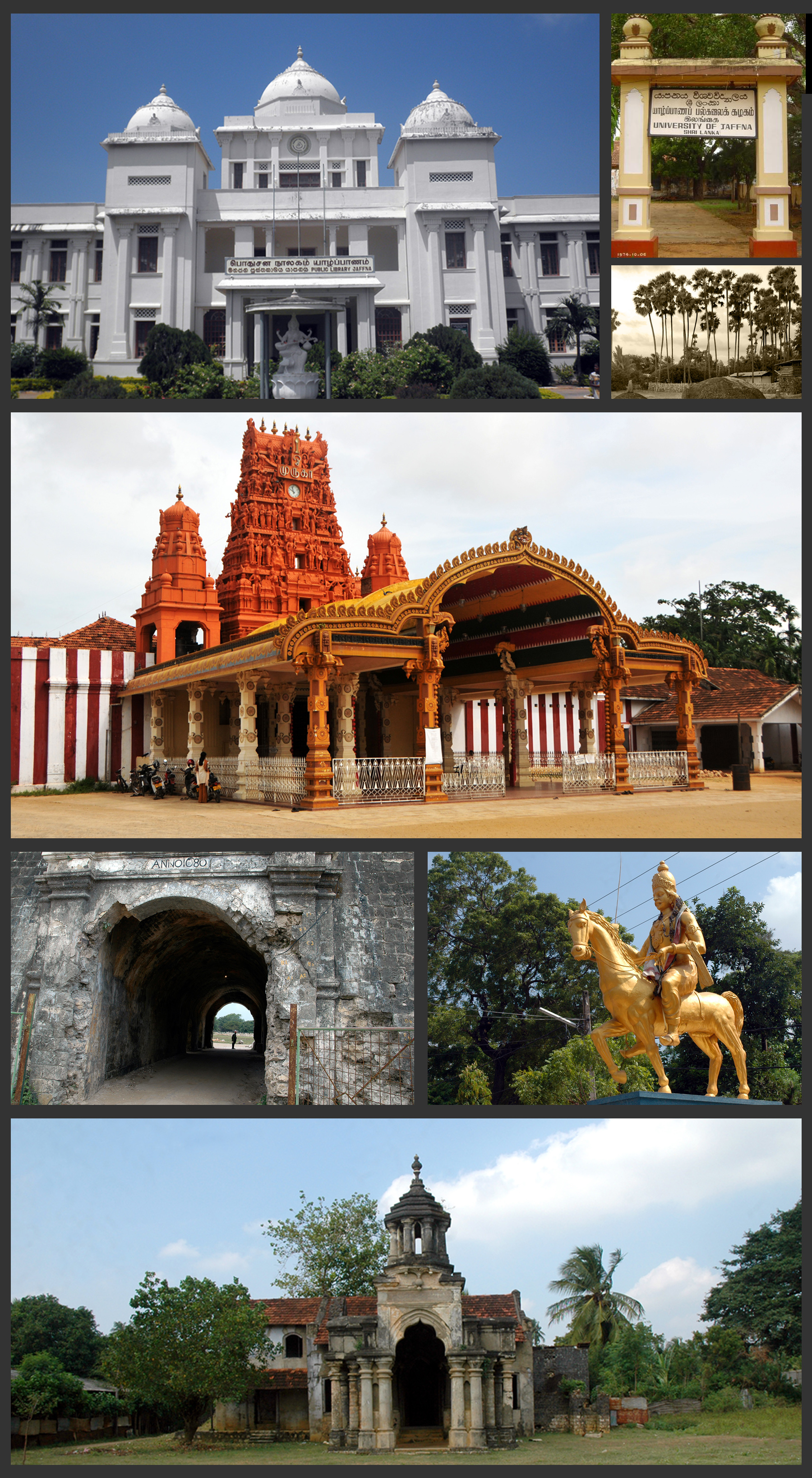 Jaffna montage: - Clockwise from top: Jaffna Public Library, Name board of University of Jaffna, Kandarodai archiological site, Nallur Kandaswamy temple, statue of Cankili II, Entrance of Jaffna Fort and Manthirimanai (Nallur)